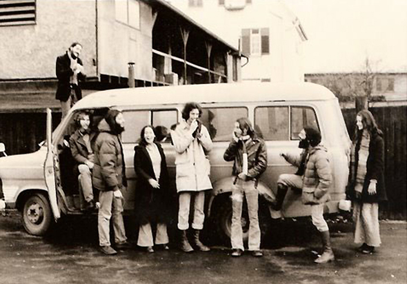 Jazz-Rock Group Sweet Smoke with their Ford Transit van in 1974